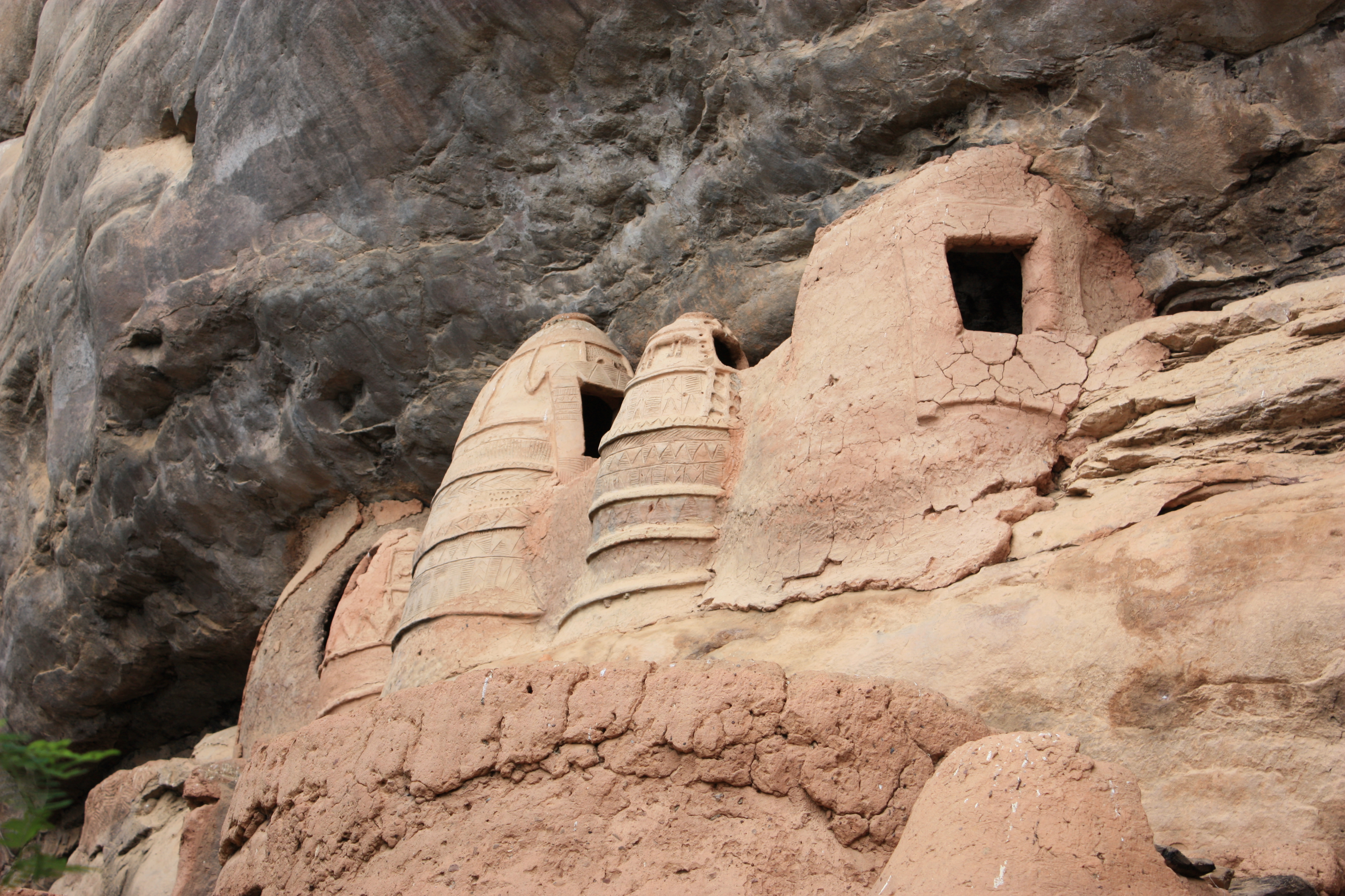 Granaries of Niansogoni, SW Burkina Faso